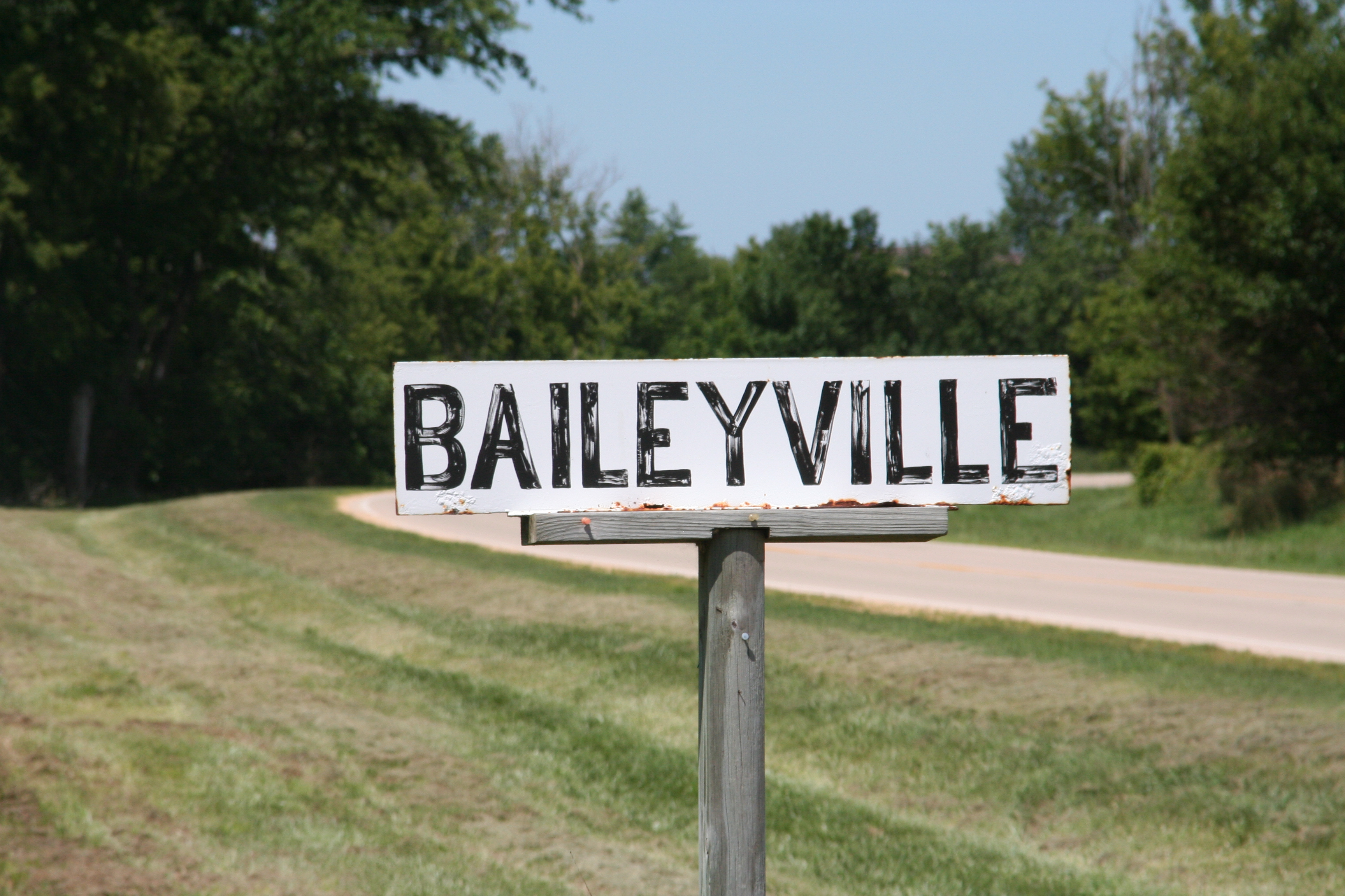 Sign showing you have entered Baileyville, Illinois, USA.